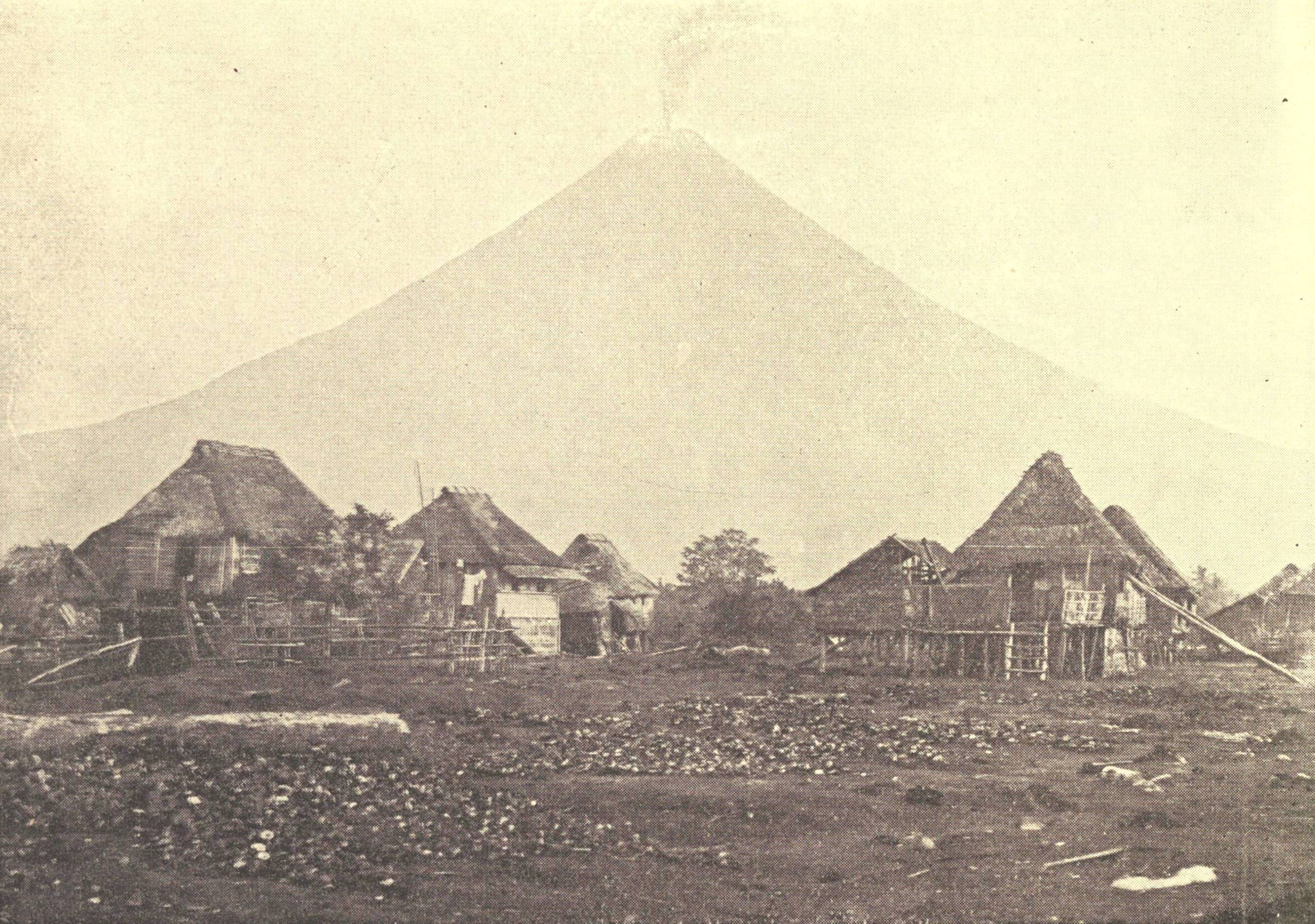 Original caption (cropped out): Volcano “Mayon” in the hemp-producing district of Luzon. Description (cropped out): This is said to be the most beautiful volcano in the world. It is 8,223 feet high, its shape is a perfect cone and its crest is always fiery. It has indulged in several destructive eruptions. In 1814 many houses were destroyed and 2500 people were killed and wounded. At its base are famous springs of great medicinal value.